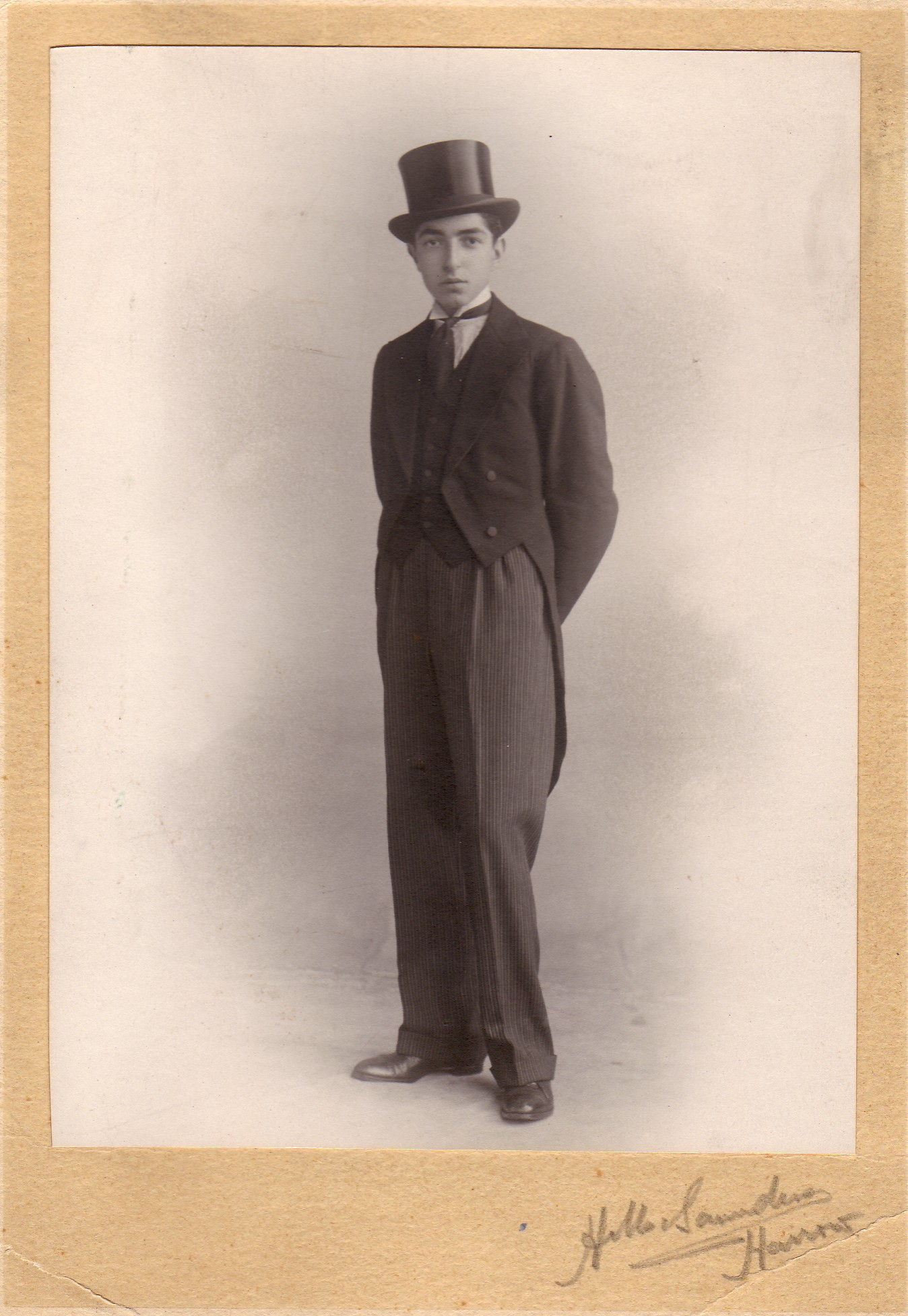 Teymourtash, myself, public domain